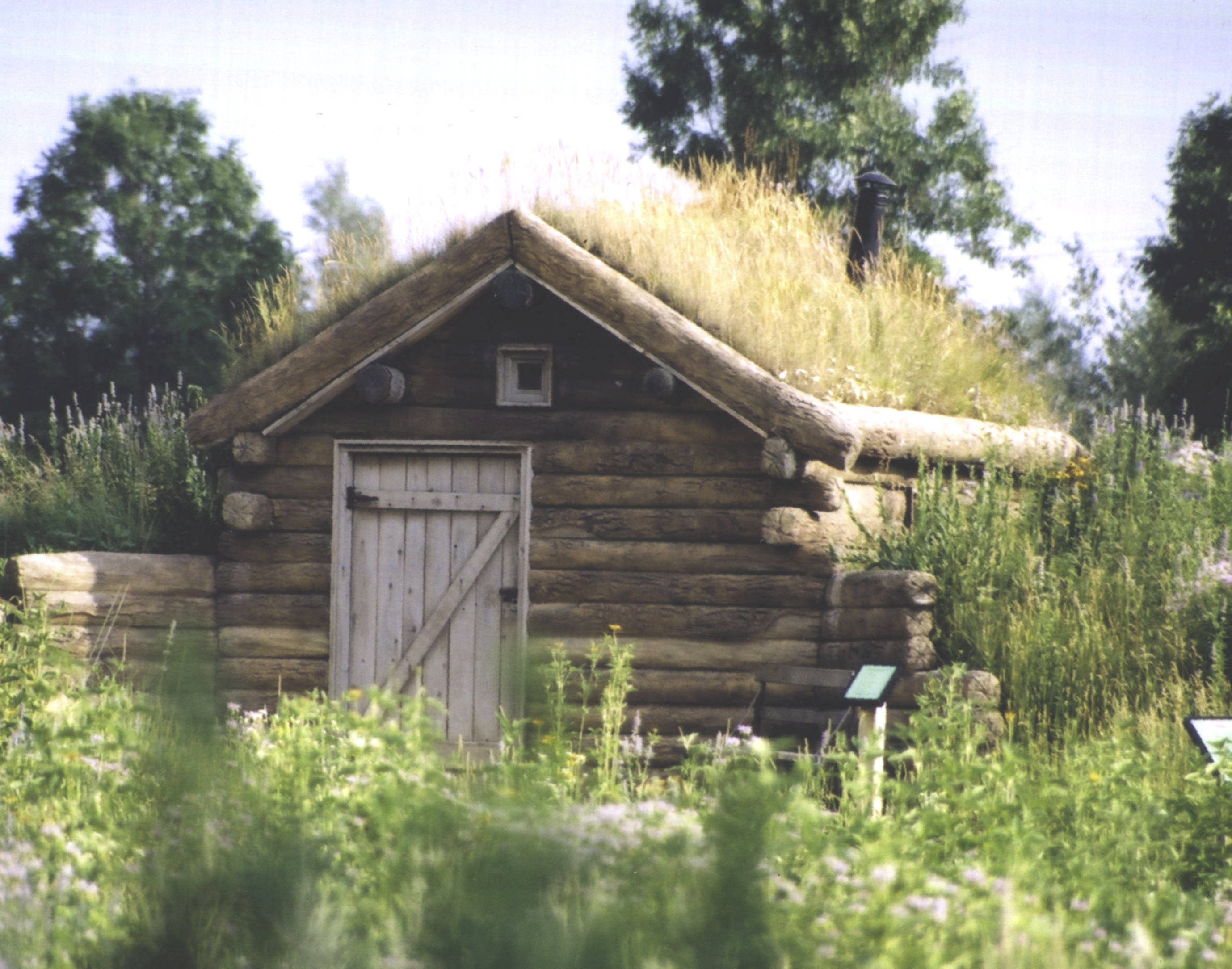 This is the replica sod house built from information gathered from the 1995 excavation of the original.